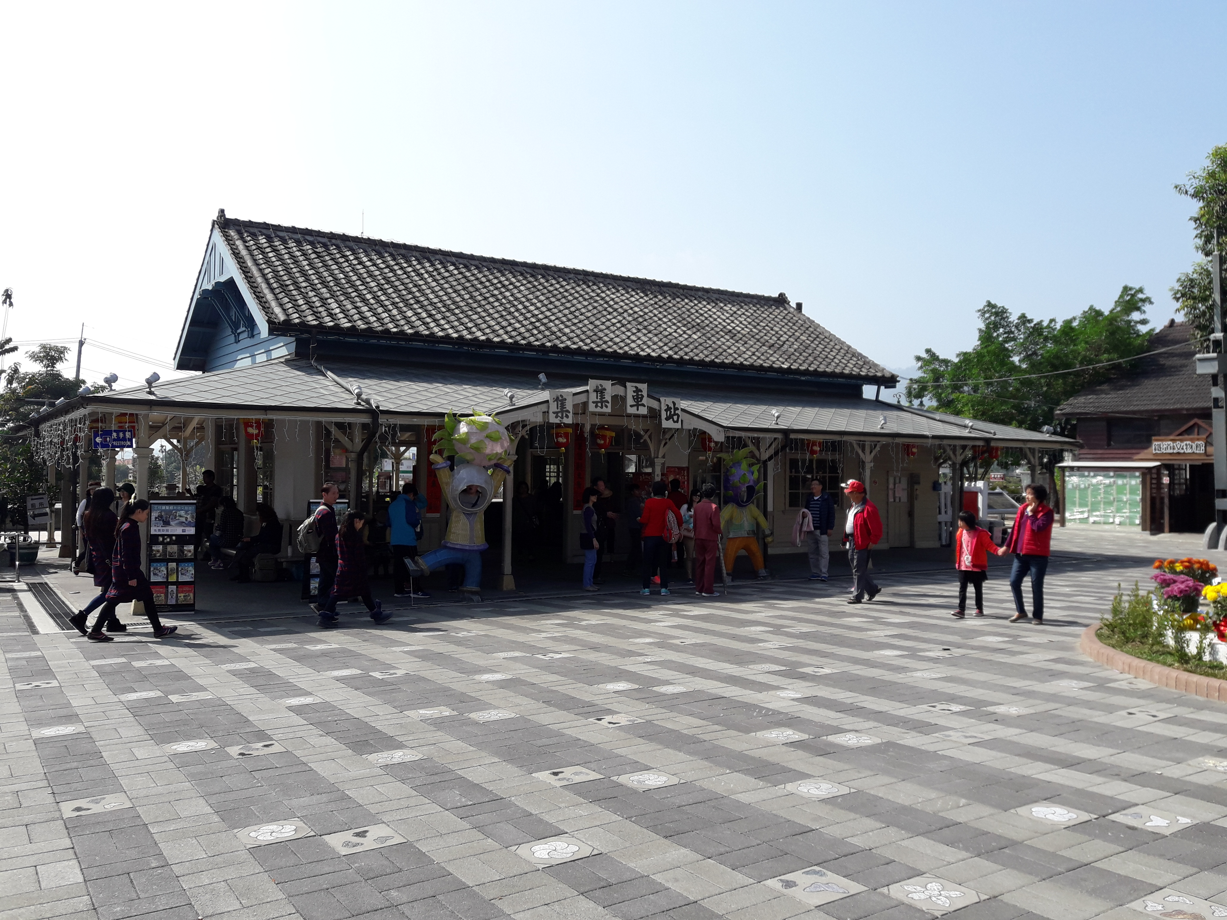 Jiji Station of TRA Jiji Line